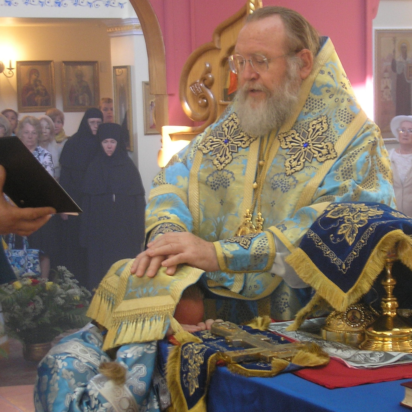 Ordination of an orthodox priest. The deacon being ordained is kneeling at the south west corner of the holy table and the bishop places his omophorion and right hand on the deacon's head and his left hand over his right hand so as to make a cross, while reciting the prayers of Cheirotonia (laying on of hands).